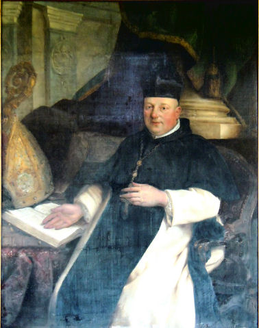 Portrait of Benedict Neefs (1741-1790)